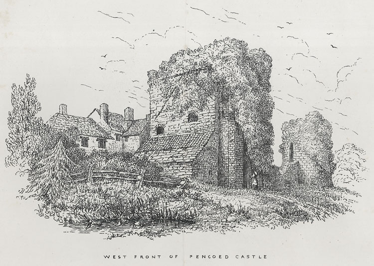 A view of the ruins of Pencoed Castle, showing the gatehouse.